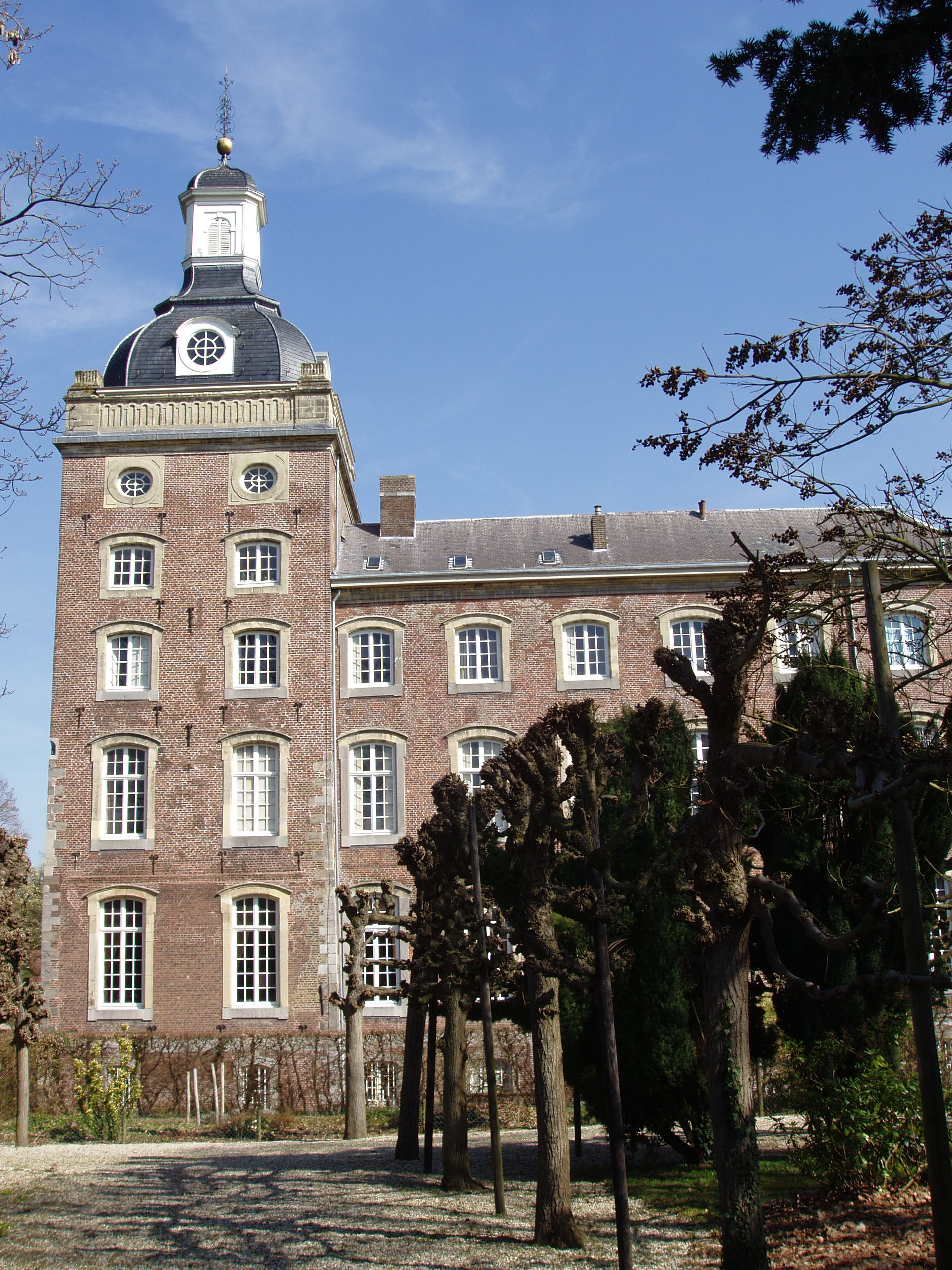 Castle Amstenrade, Amstenrade, Limburg, the Netherlands